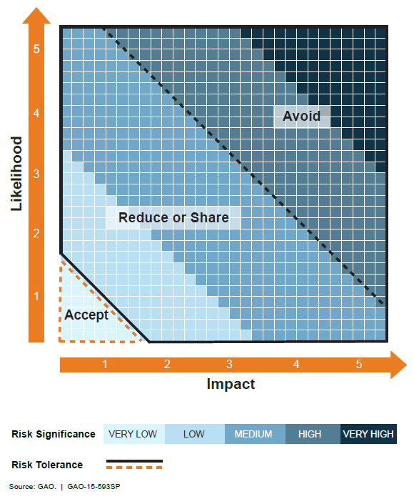 This image is excerpted from a U.S. GAO report: A Framework for Managing Fraud Risks in Federal Programs